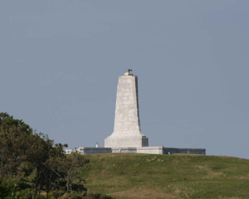 Wright Brothers Memorial (Kitty Hawk, Outer Banks, North Carolina, United States)